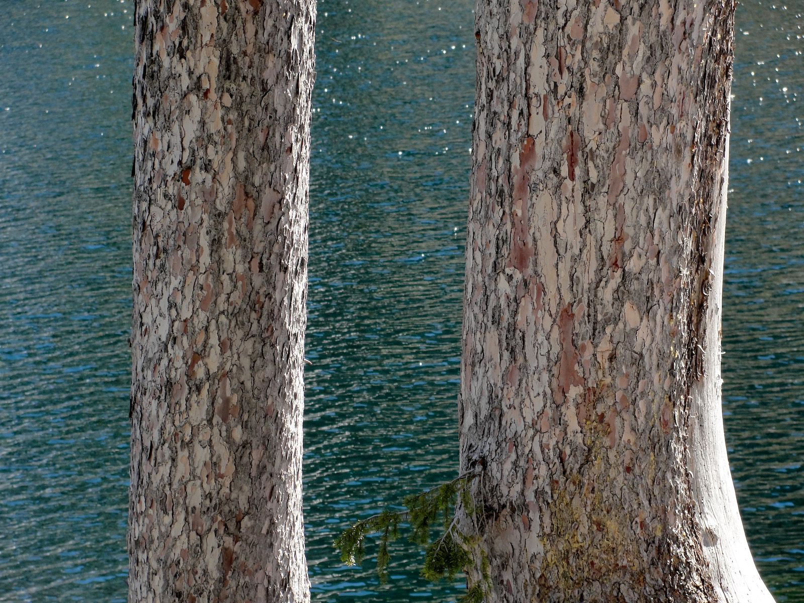 Brewer's Spruce (Picea breweriana) bark — at Lower Canyon Creek Lake. In the Trinity Alps Wilderness of the Trinity Alps—Klamath Mountains, northern California.